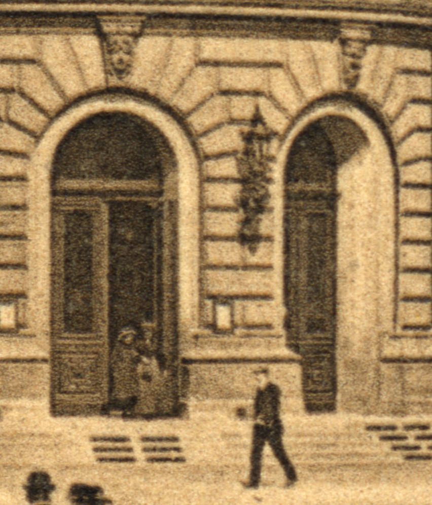 Frankfurt on the Main: Alte Oper (Old Opera) as seen from the southeast, detail of a southeastern portal